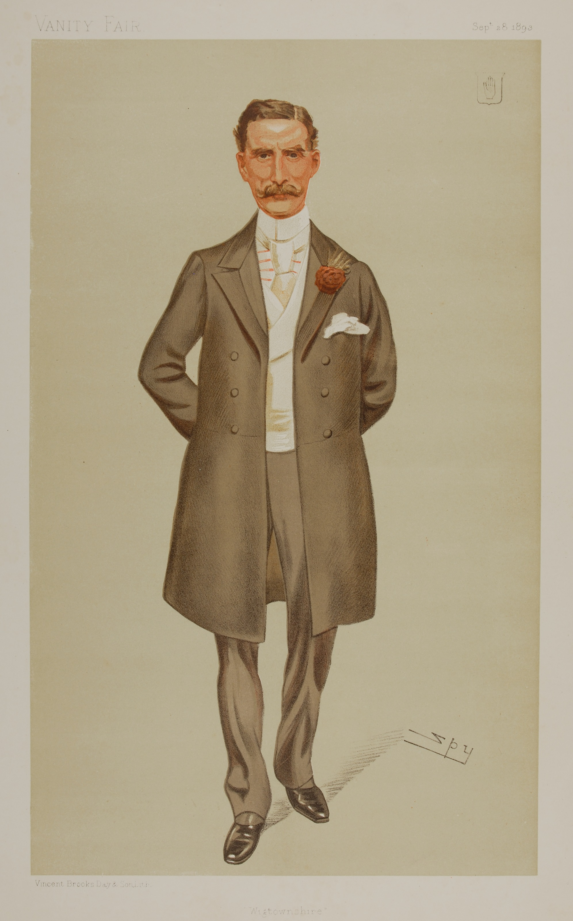 Statesmen No. 619: Caricature of Sir Herbert Eustace Maxwell, Bart., M.P.. Caption read "Wigtownshire".